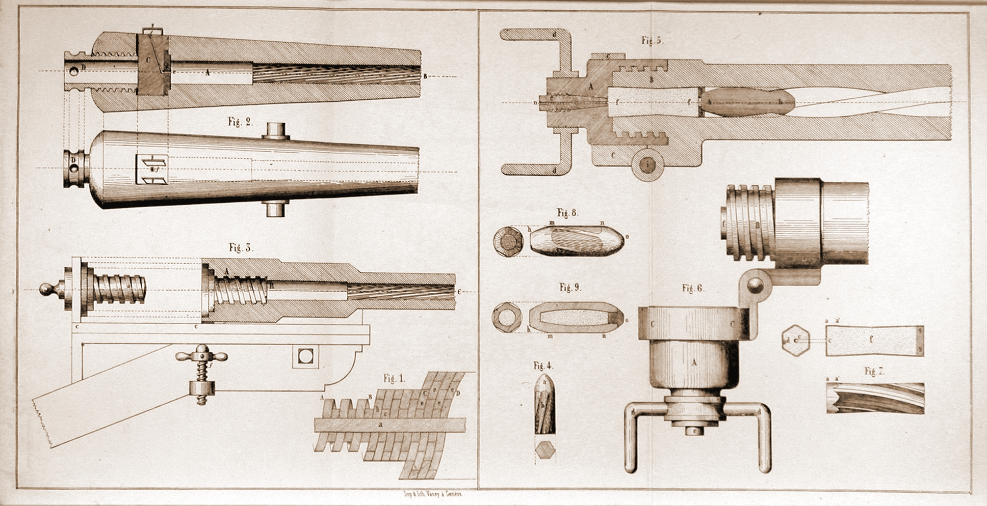 Armstrong & Whitworth early breech loaders